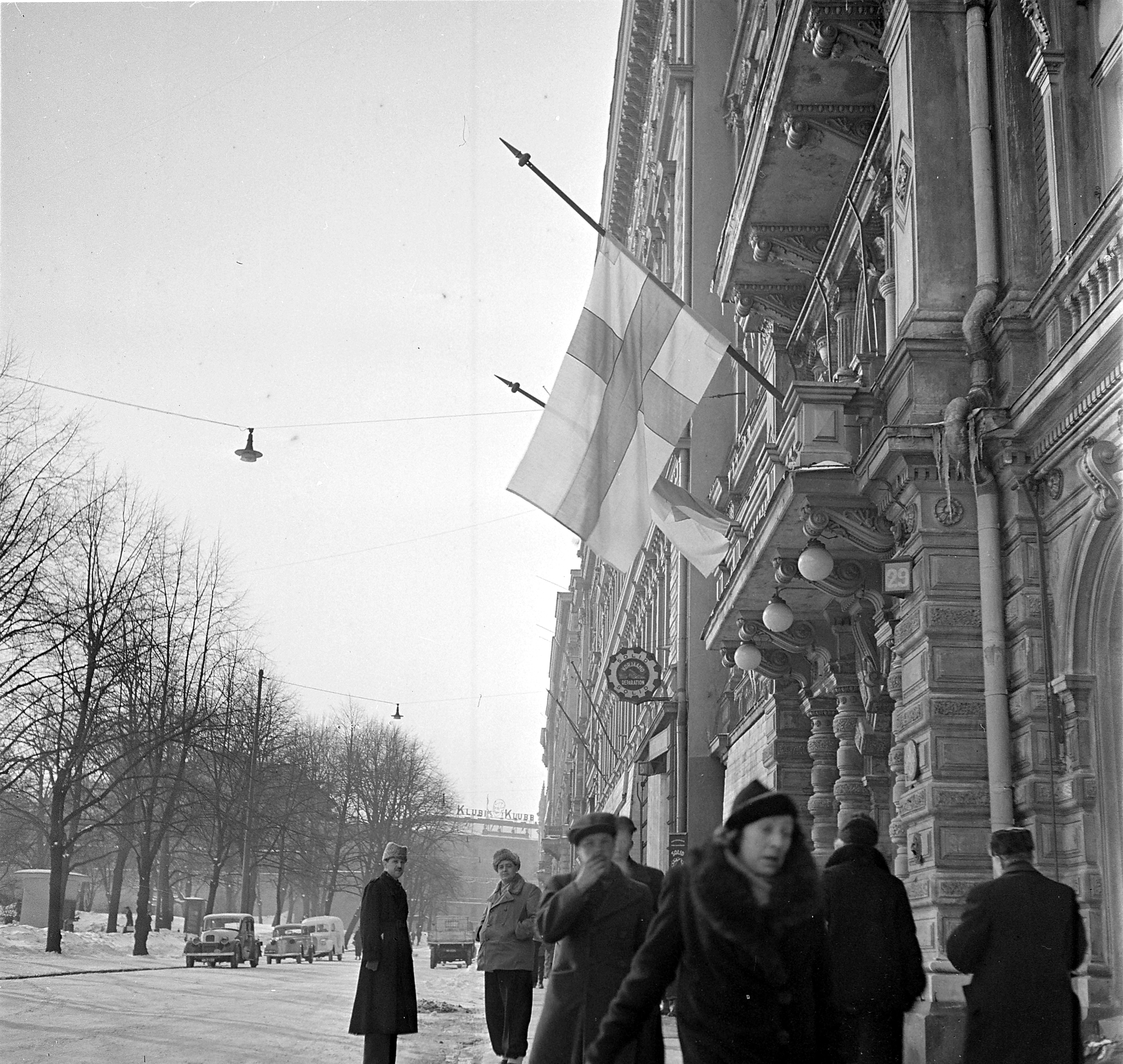 Helsinki celebrating peace. On the right, entrance to Hotel Kämp at address Pohjoisesplanadi 29.